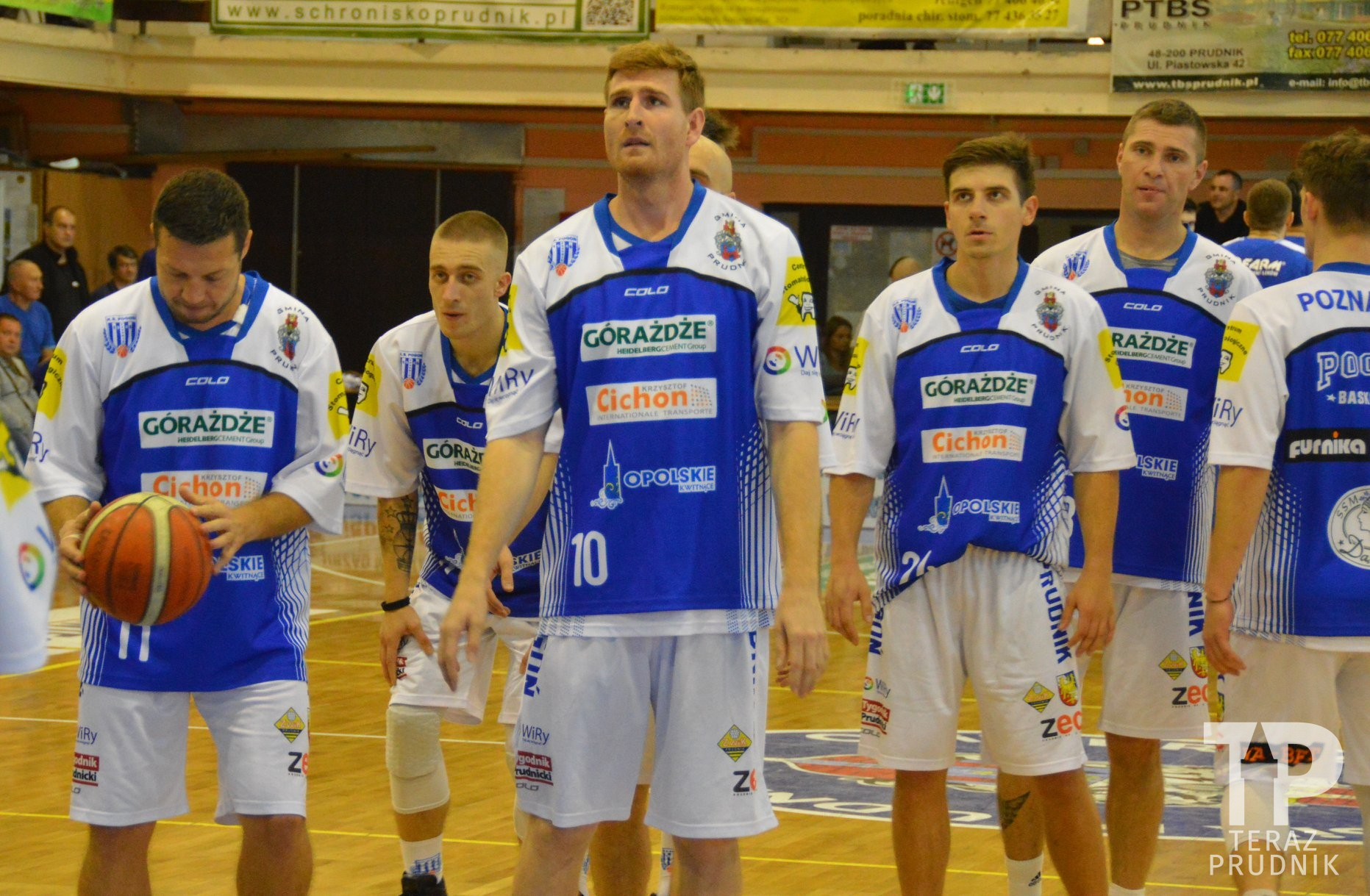 Pogoń Prudnik 17.11.2018